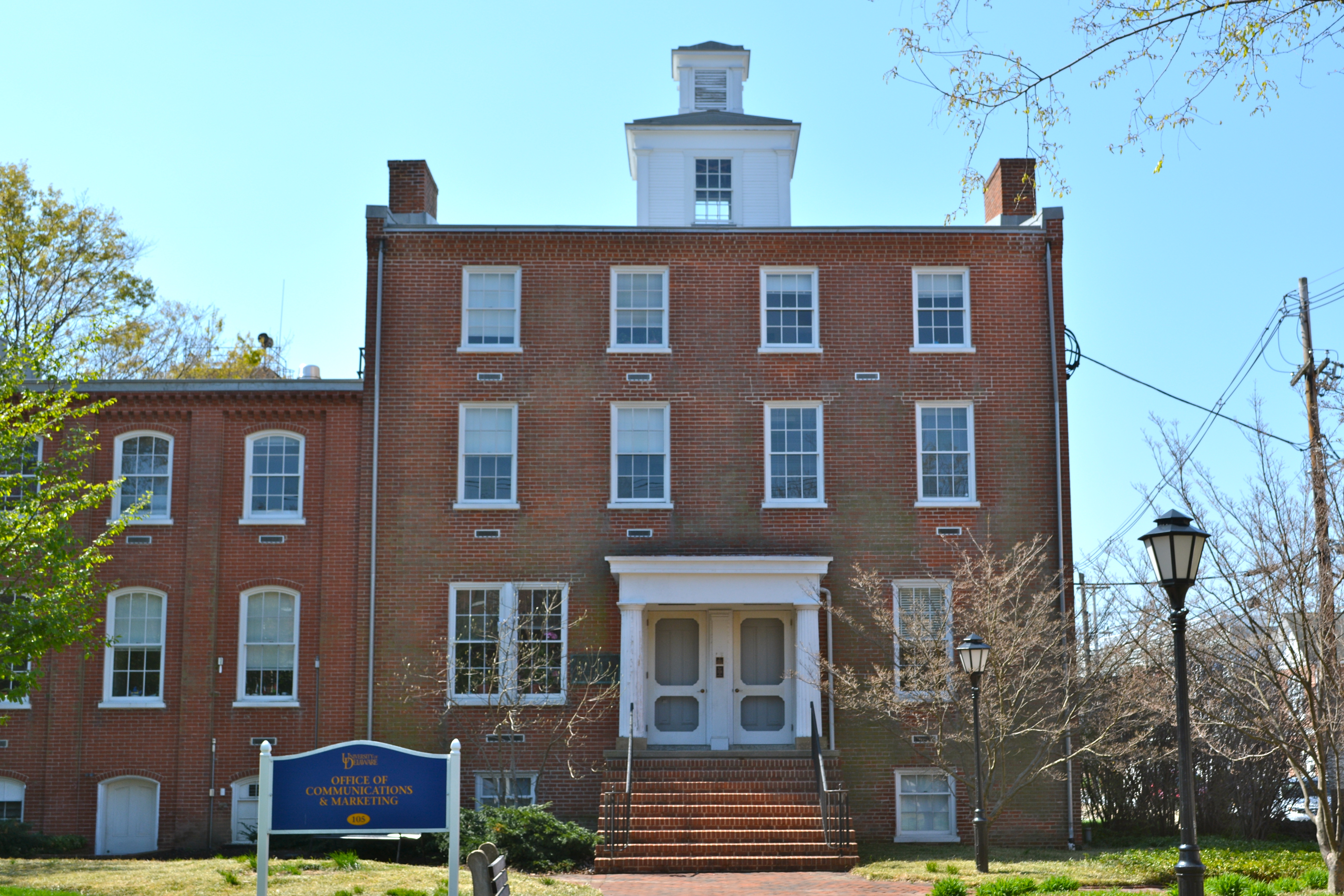 Building on Main Street, Newark, Delaware near the University of Delaware. Newark Academy building, predates U of Delaware